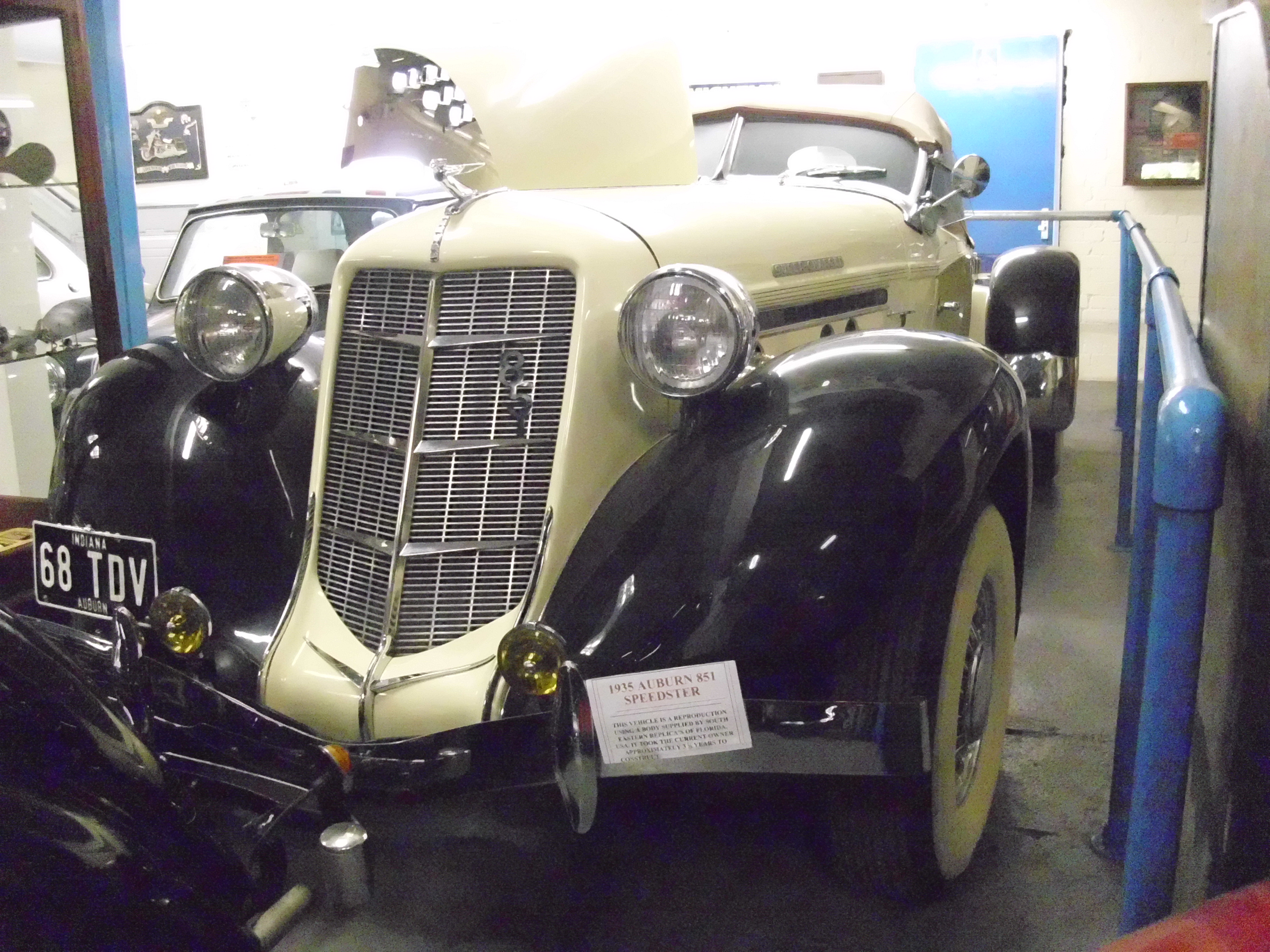 Southeastern Replicars Auburn Replika 1980